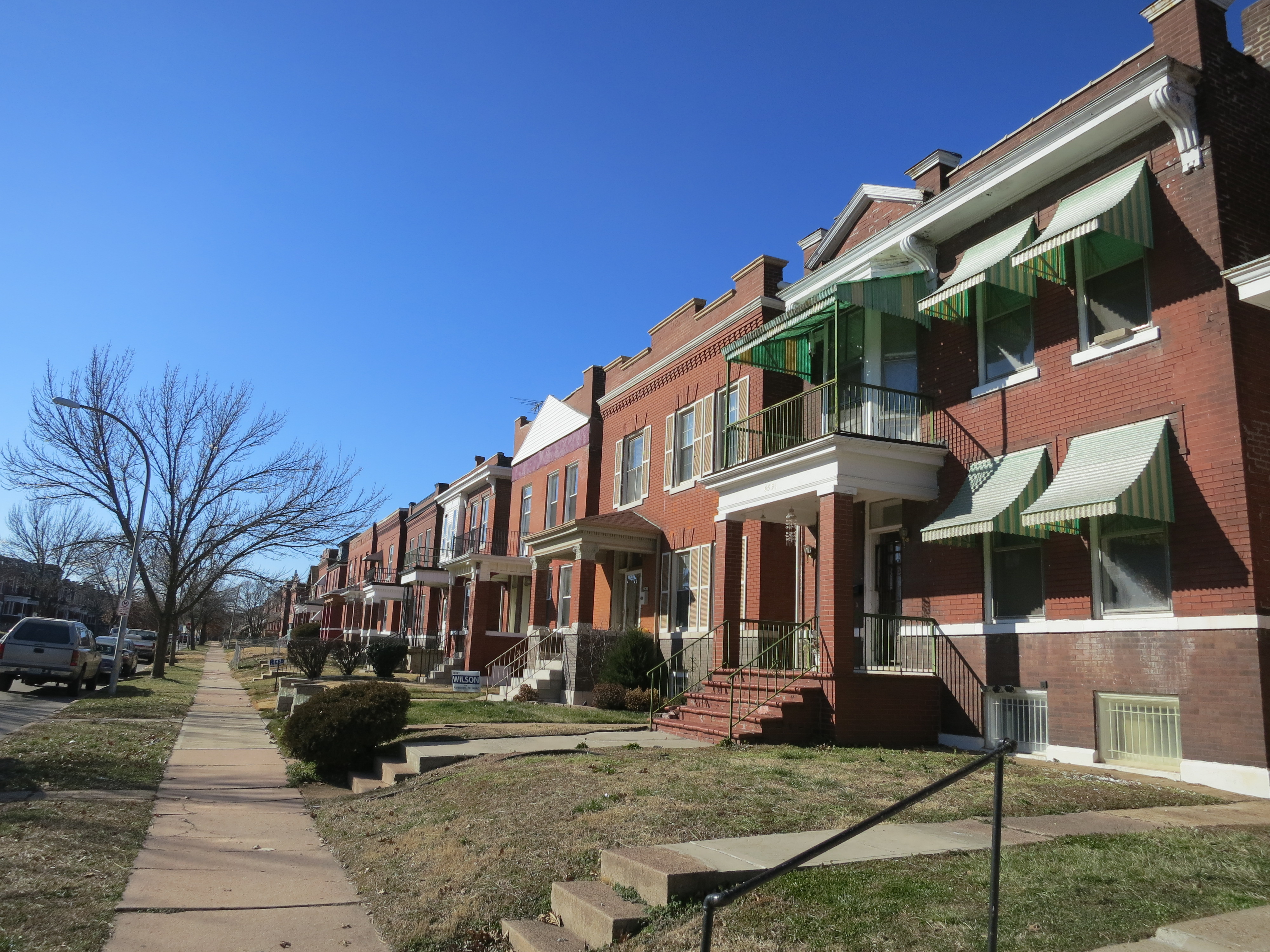 Awnings in the O'Fallon Neighborhood